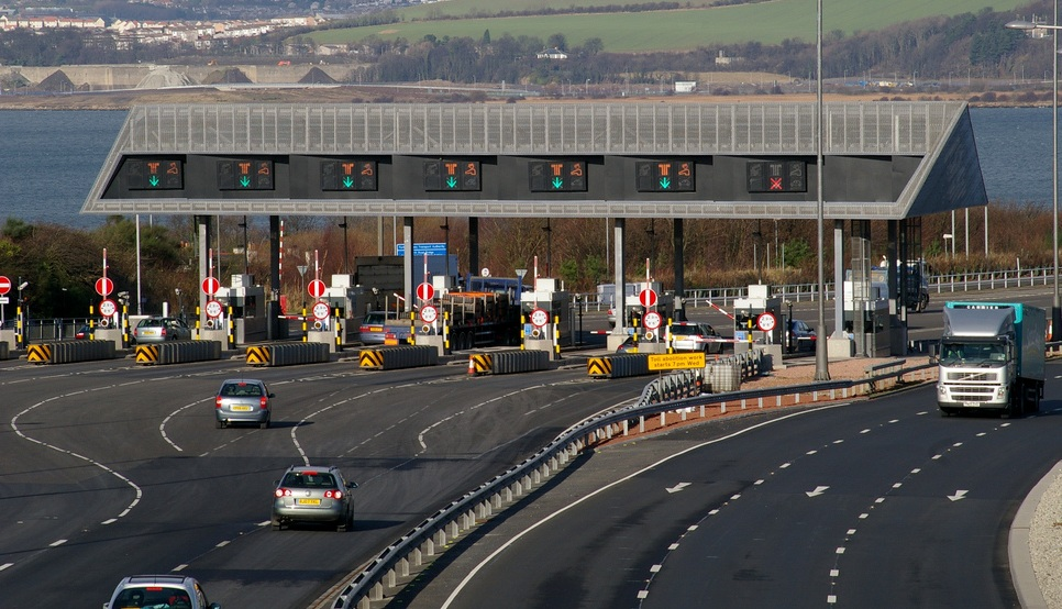 Toll booths in the United Kingdom